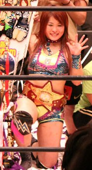 Professional wrestler Io Shirai with the World of Stardom Championship belt.